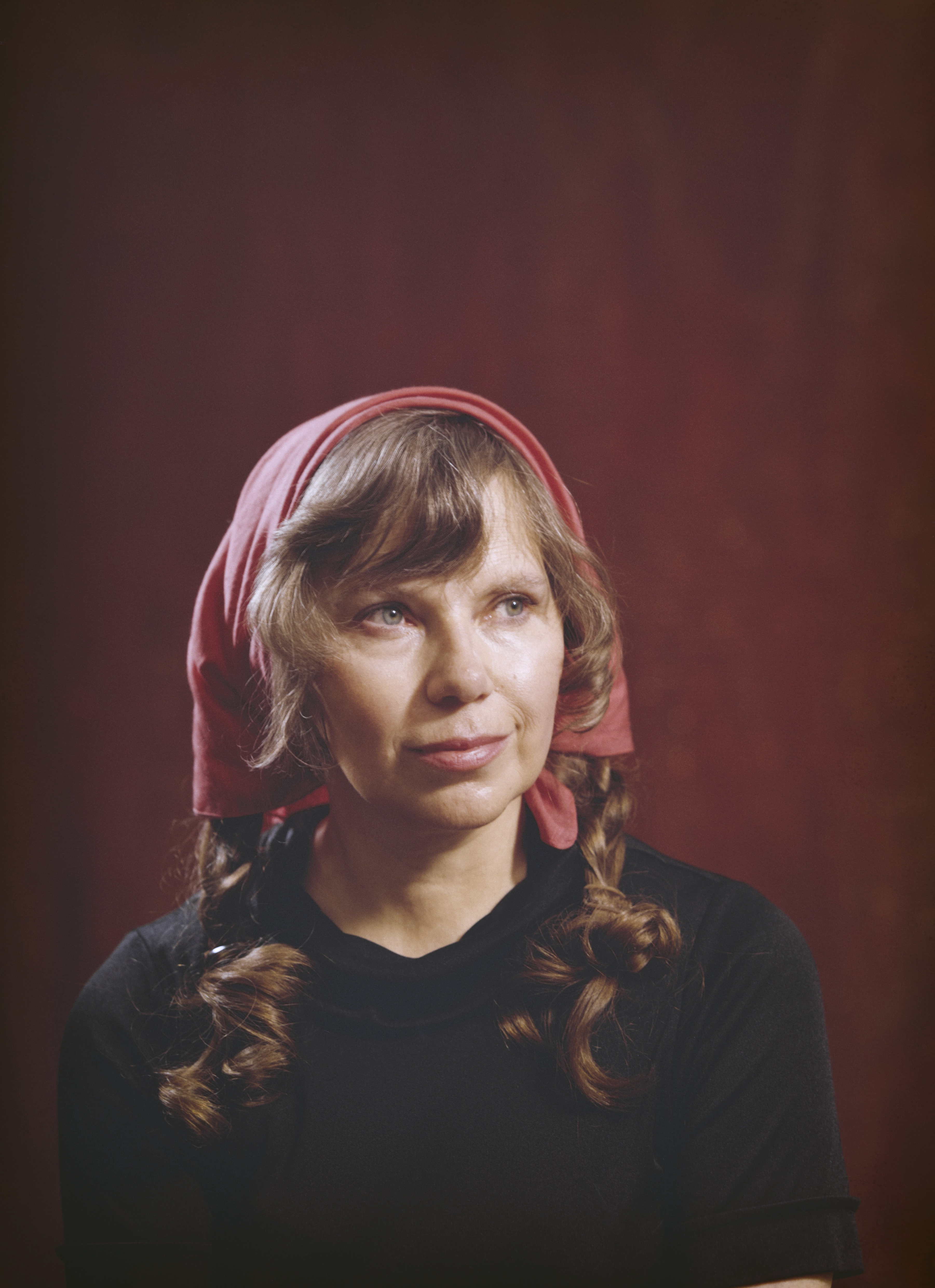 Photograph of the Finnish writer Anja Vammelvuo (1921–1988).